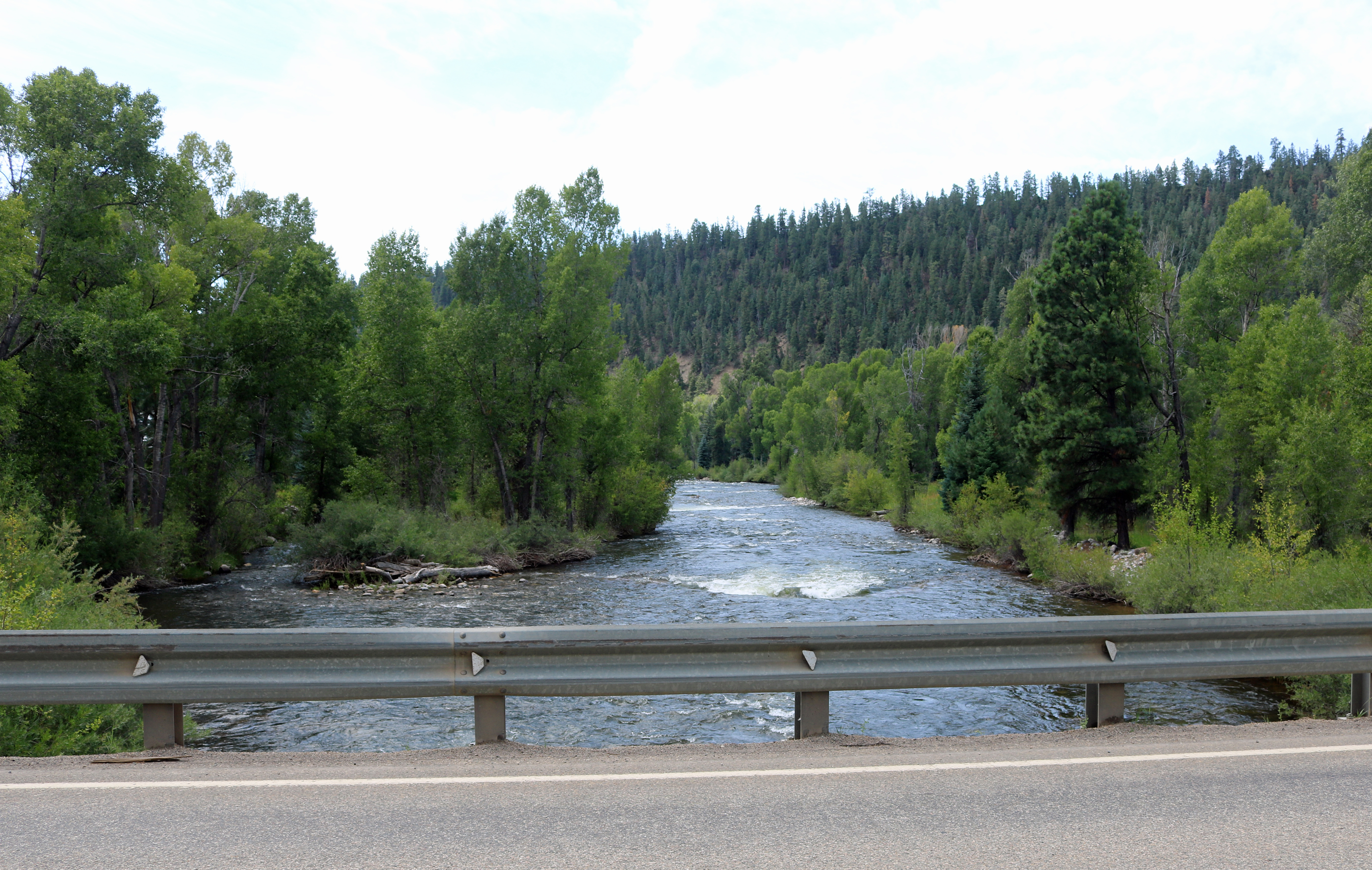 The Los Pinos River in La Plata County, Colorado. The view is from a bridge on County Road 501 over the river near the intersection of County roads 245 and 501. The river is known locally as the Pine River.